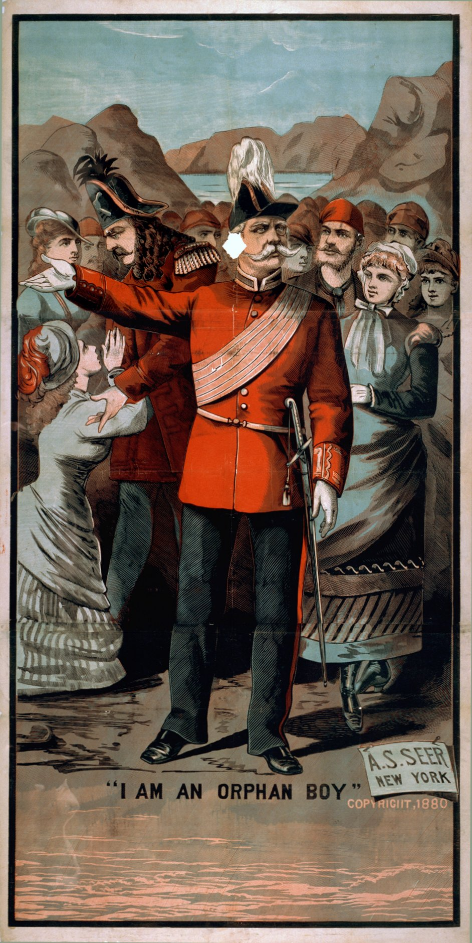 1880 poster for an American production of The Pirates of Penzance. Digital image cleaned up by Dave Pape.